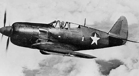 Curtiss XP-60C in flight, modified from second XP-60A.